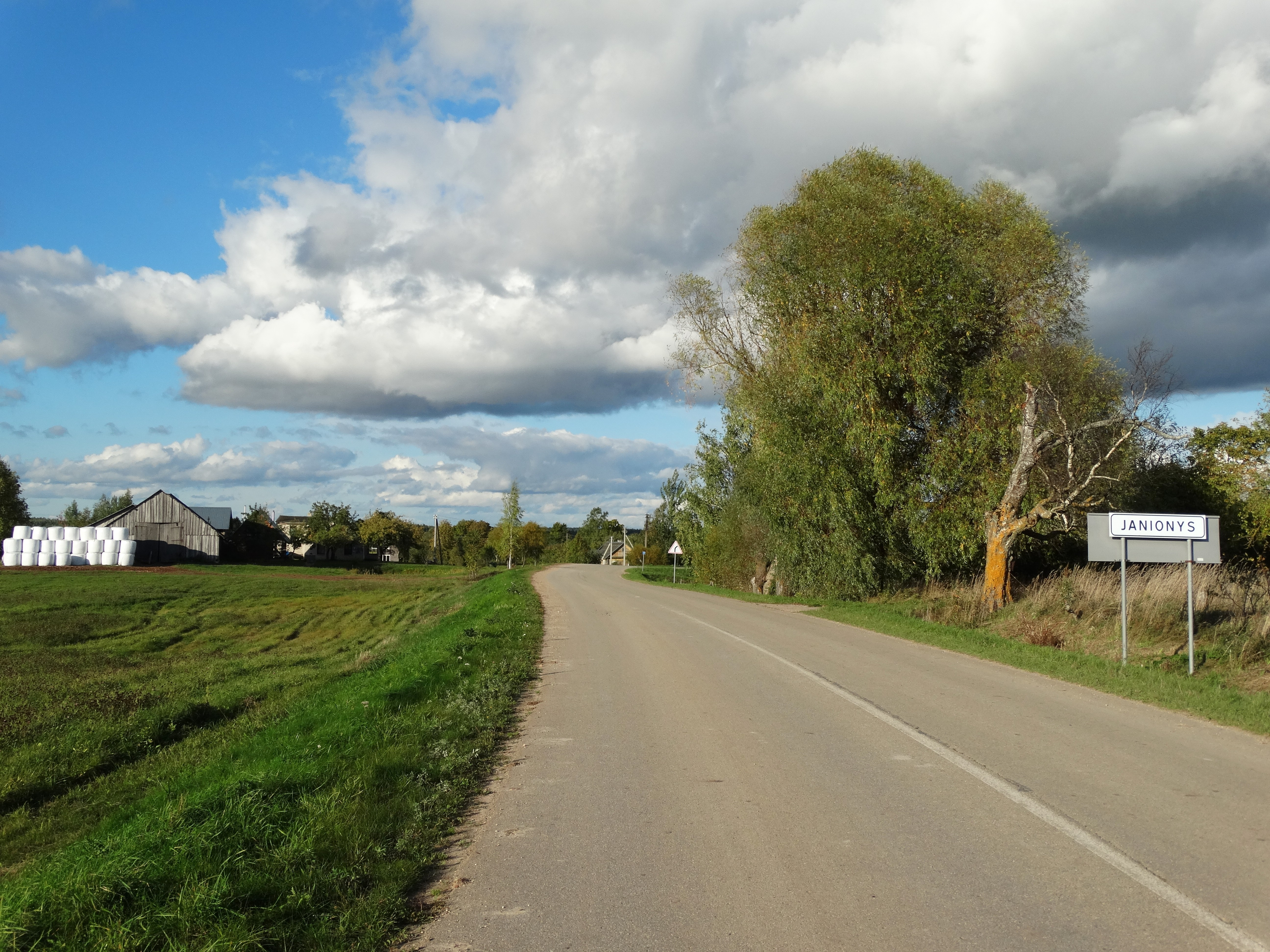 Janionys, Ignalina district, Lithuania